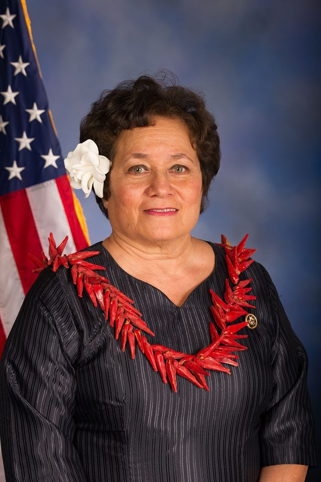 Aumua Amata Radewagen, 114th Congress